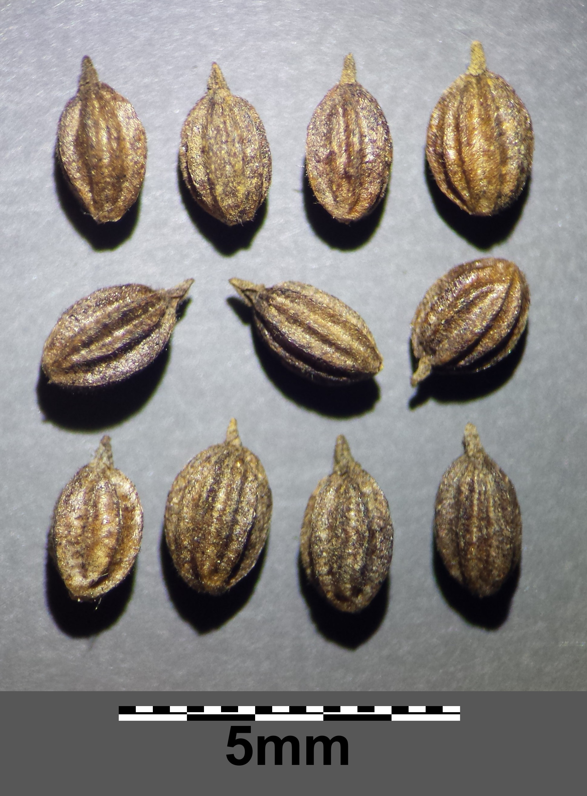 Nutlets Taxonym: Thalictrum lucidum ss Fischer et al. EfÖLS 2008 ISBN 978-3-85474-187-9 Location: Rohrwald, district Korneuburg, Lower Austria - ca. 250 m a.s.l. Habitat: Wet meadows